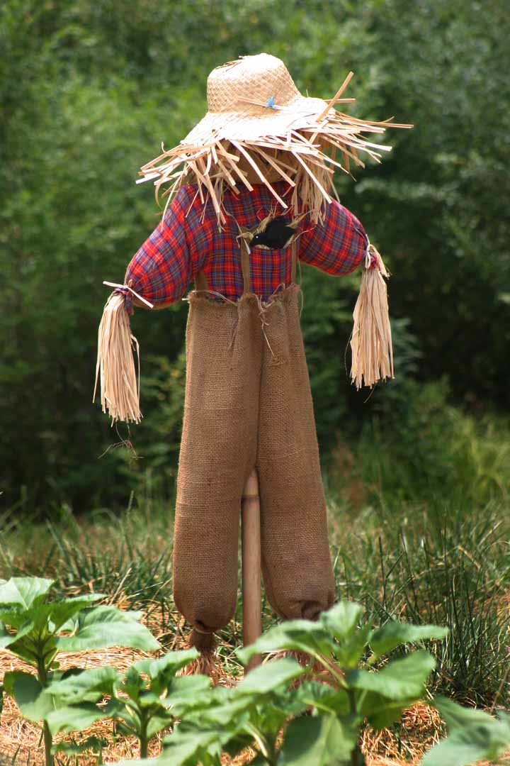 Had to go to the US for some meetings and spent a few days with family...